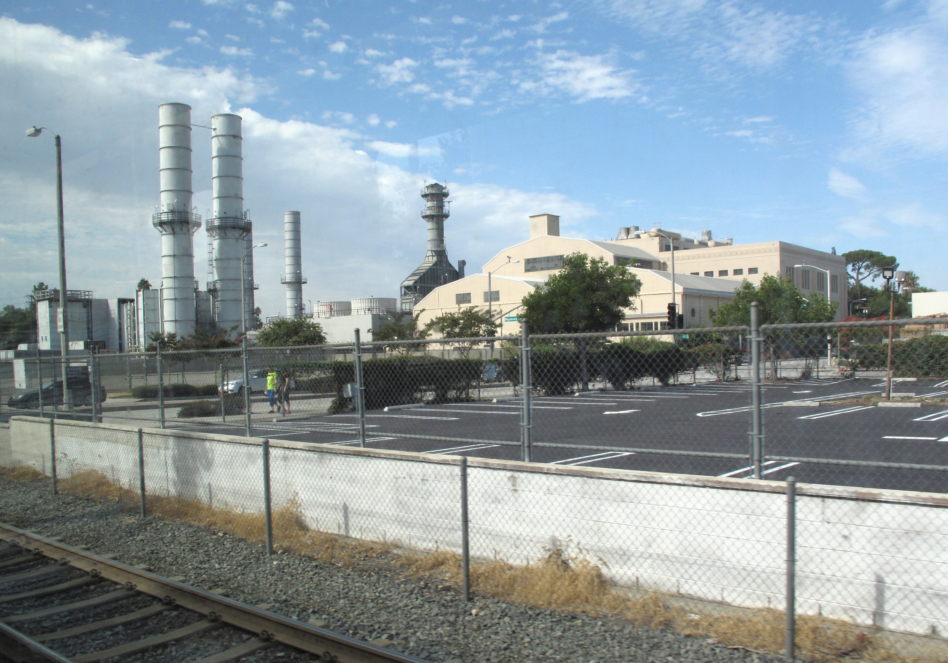 View of Glenarm Power Plant, Pasadena, California, from the Gold Line train.